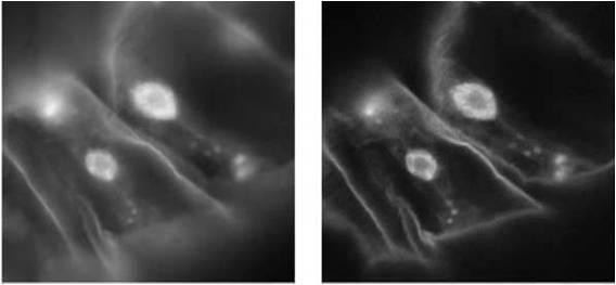 Effect of the pinhole in confocal microscopy: Same objekt, left in normal widefield mode (pinhole wide open) and right in confocal mode (pinhole closed) and therefore reduced background.